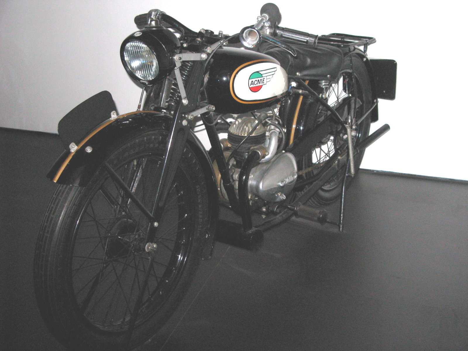 1939 ACME 125 cc